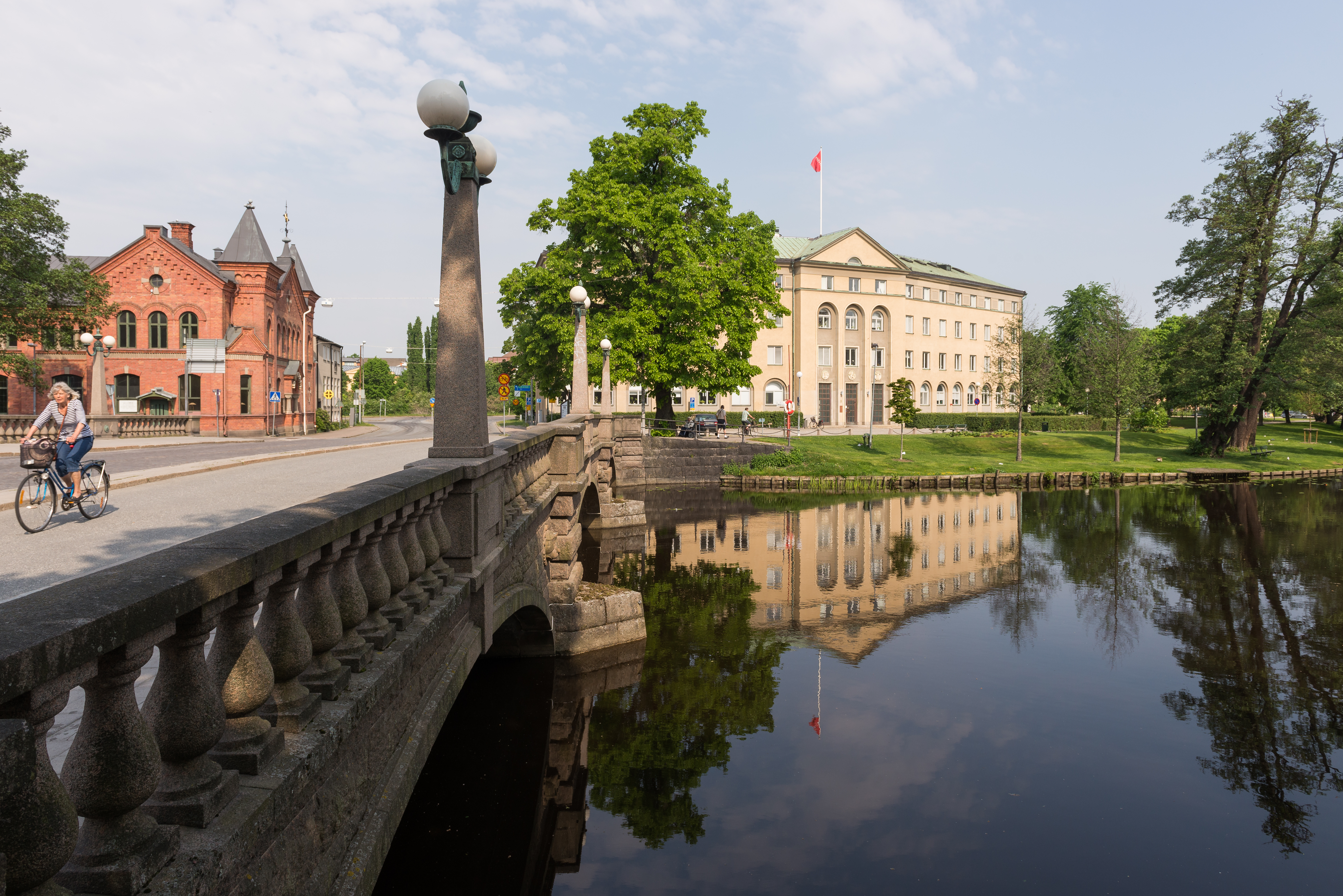 Nämndhuset seen from Vasabron (the Vasa bridges. Nämndhuset is a old municipal building in Örebro, Sweden. Built 1934., architect Georg Arn. Today a office building.